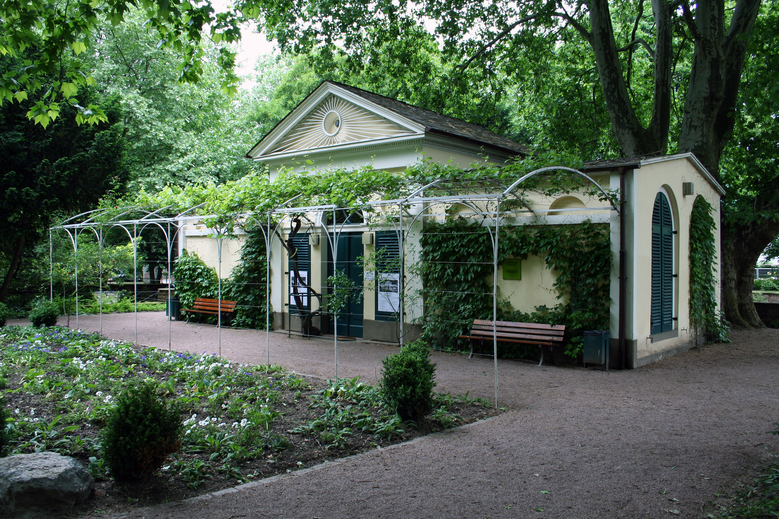 Nebbiensches Gartenhaus, summer house of Marcus Johannes Nebbien in the Bockenheimer Anlage (a former defensive wall construction), built 1810, front